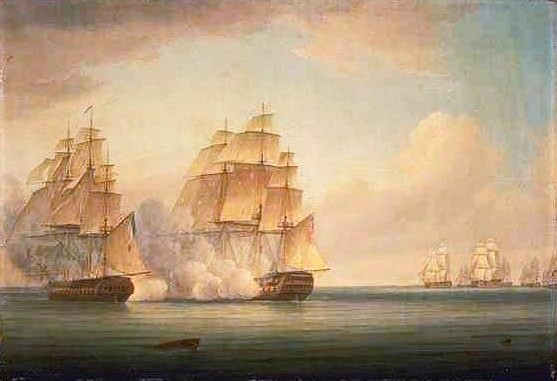 A painting of the Action of 26 September 1805 in which HMS Calcutta was captured by a French squadron.